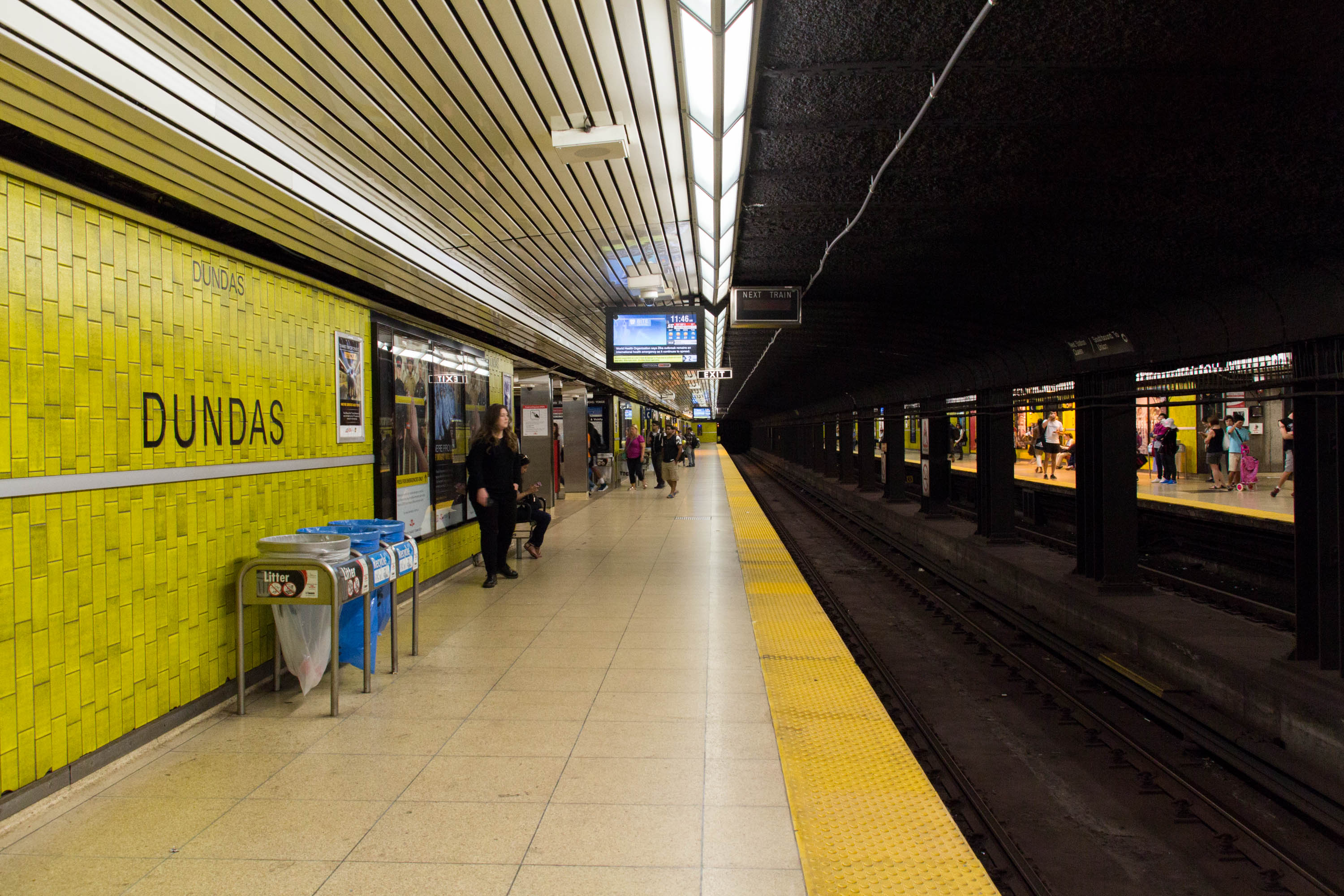 Dundas Station Platform